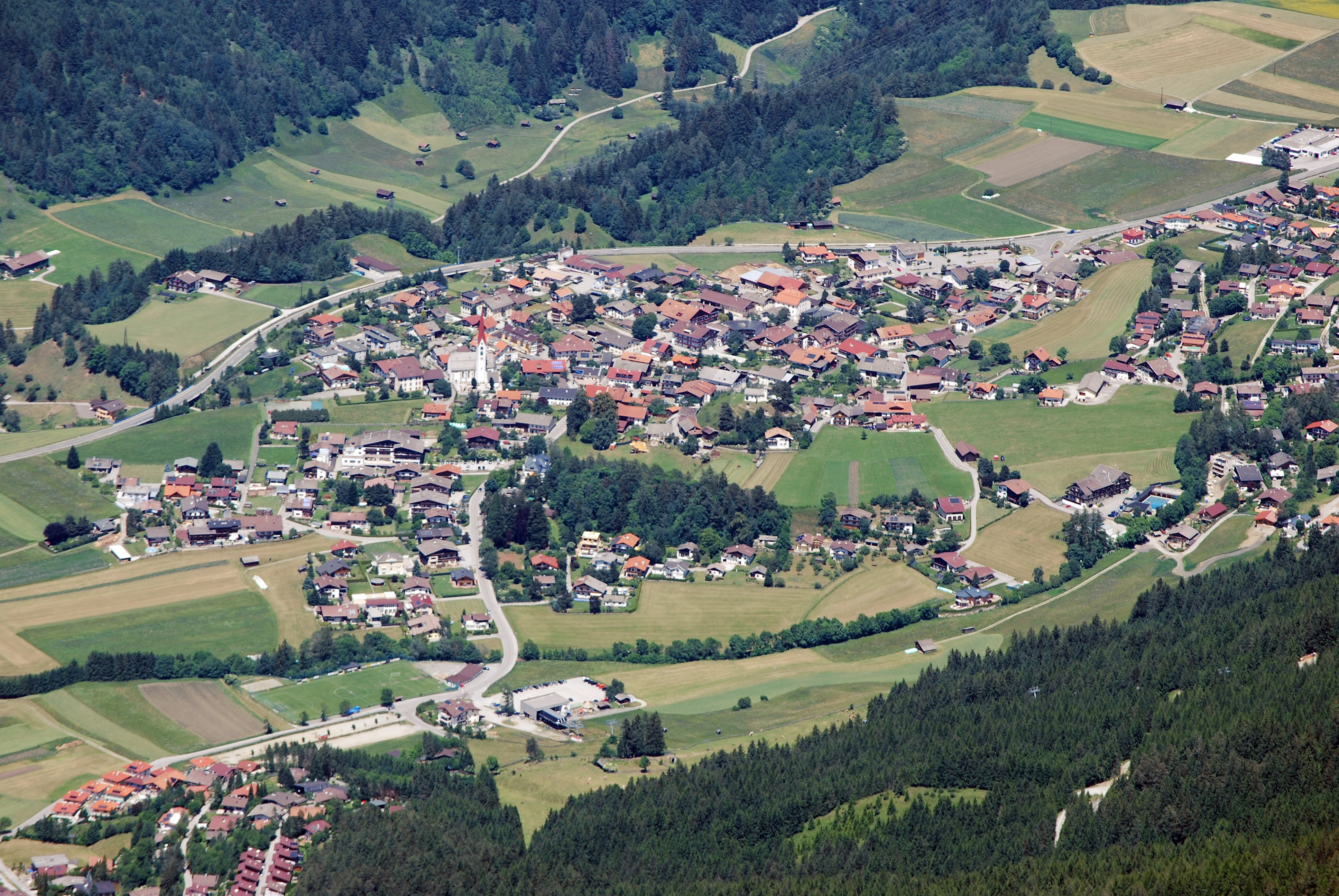 Mieders seen from Serles (from S)